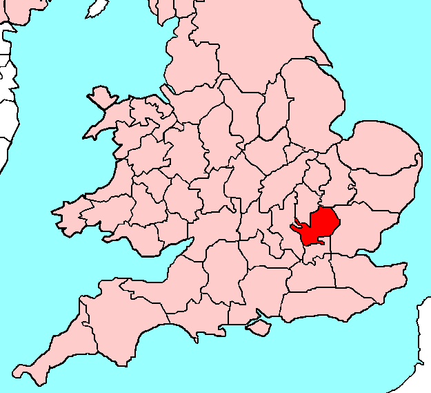 Hertfordshire